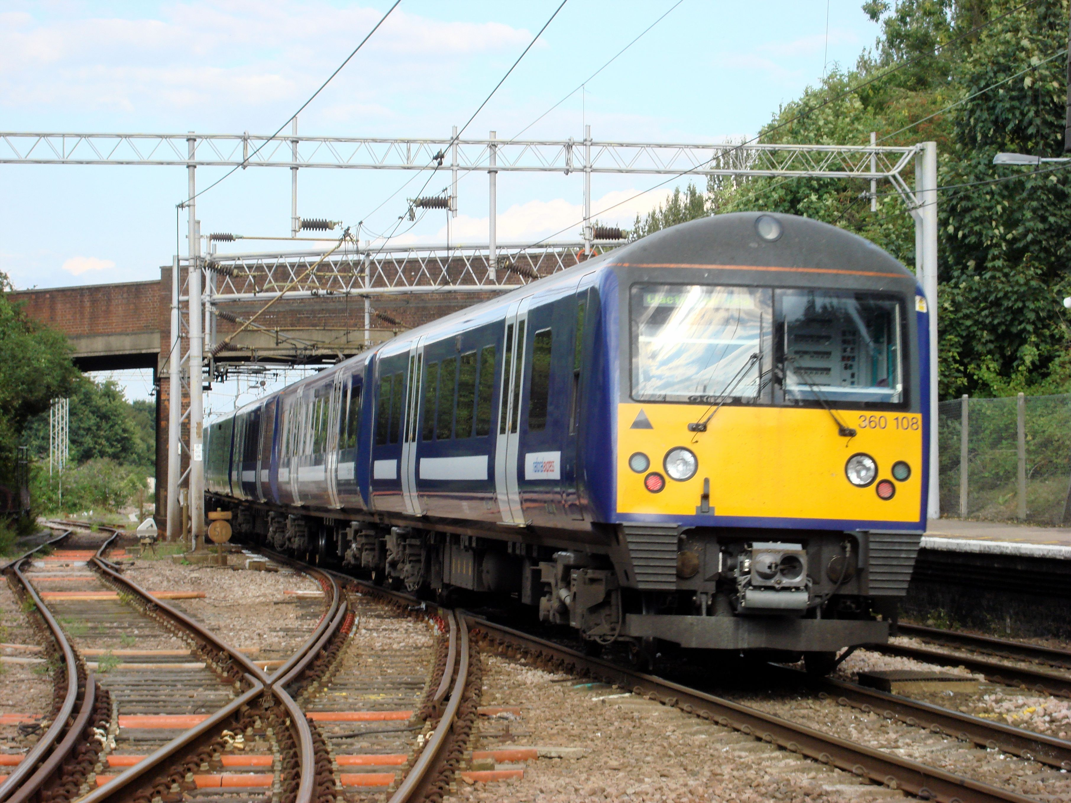 360108 at Marks Tey